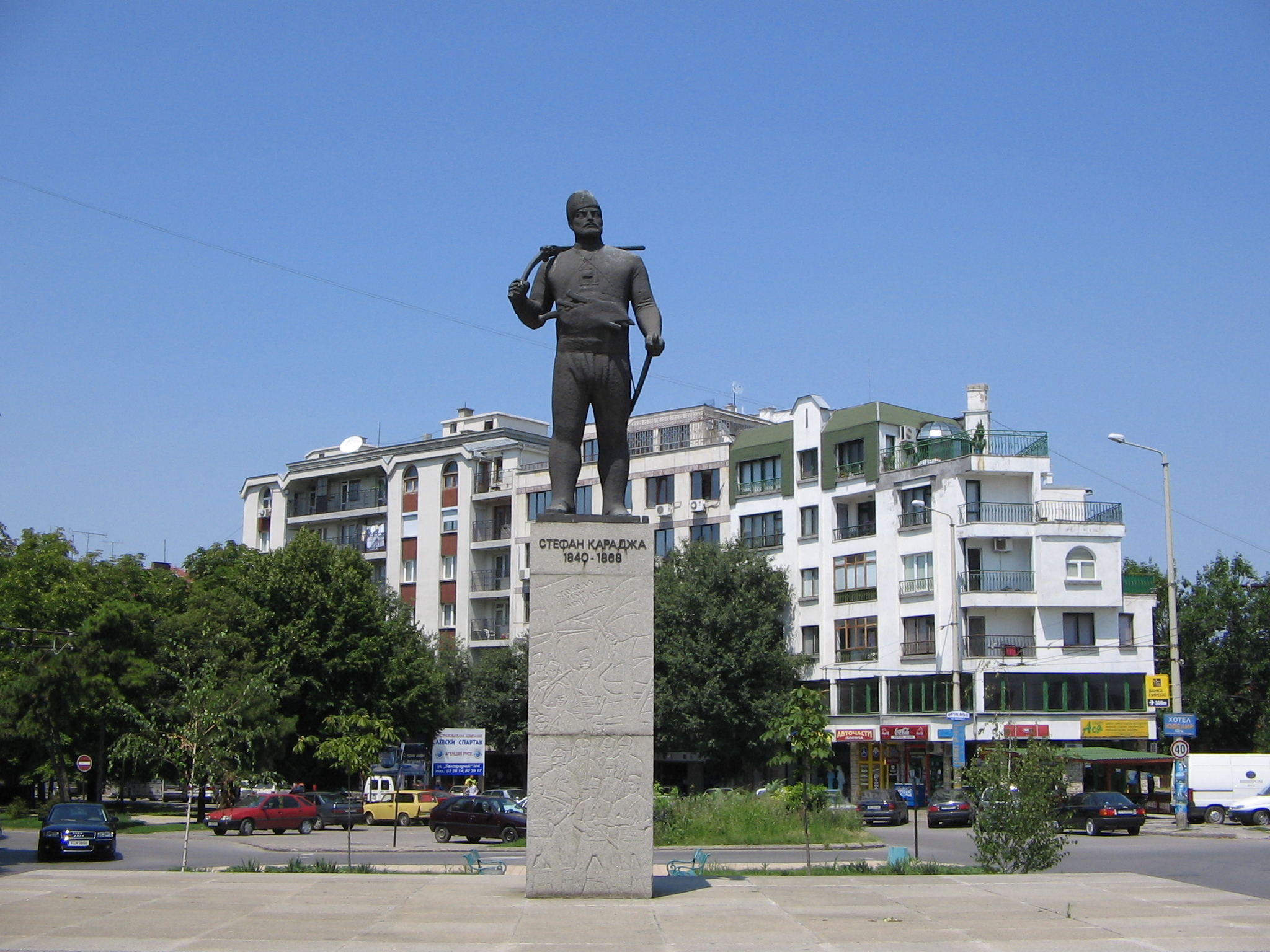 Monument of Stefan Karadja in Rousse, Bulgaria.